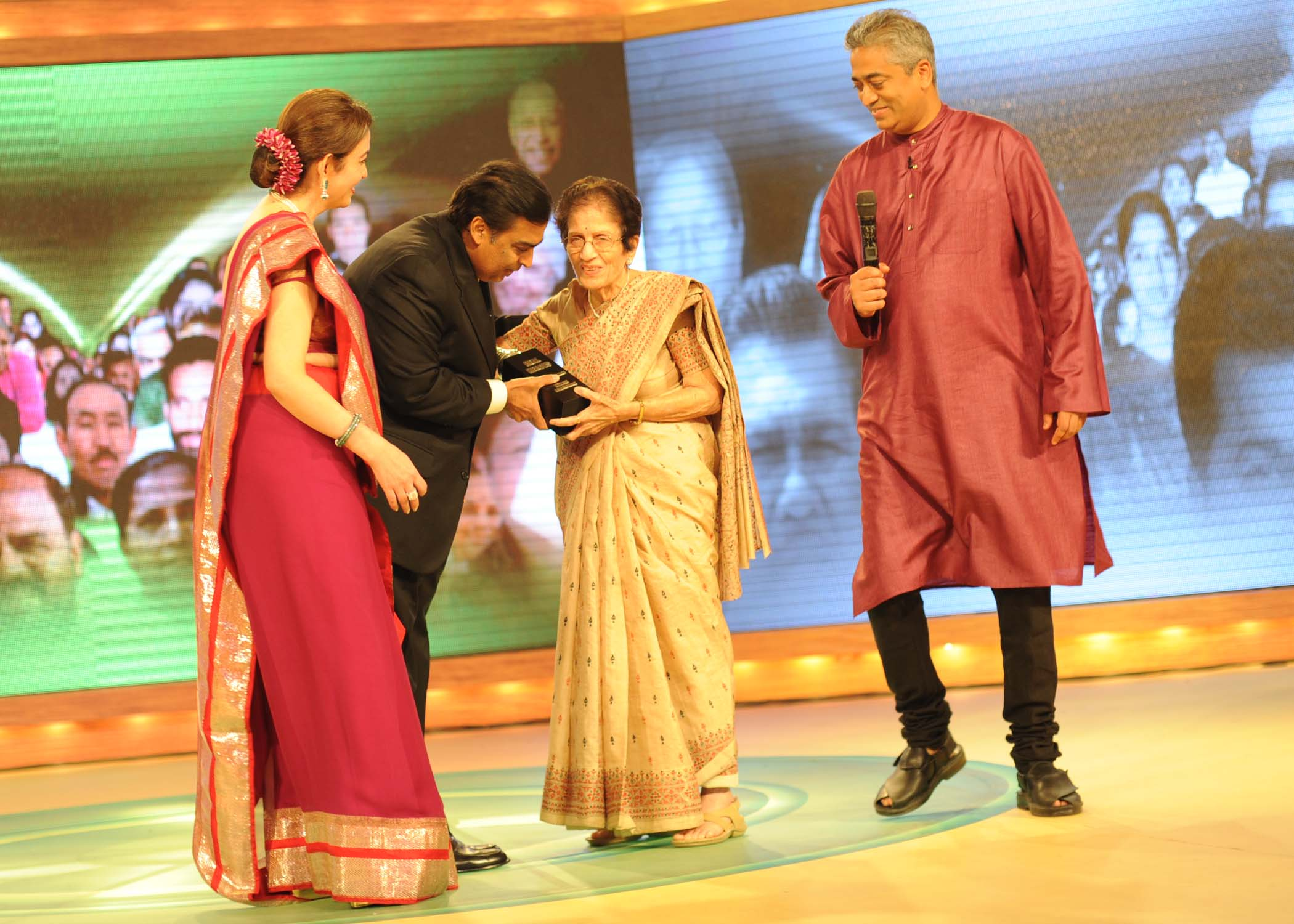 Real Heroes Life Achievement Award 2012 received by Shobhana Ranade for her Humanitarian Service